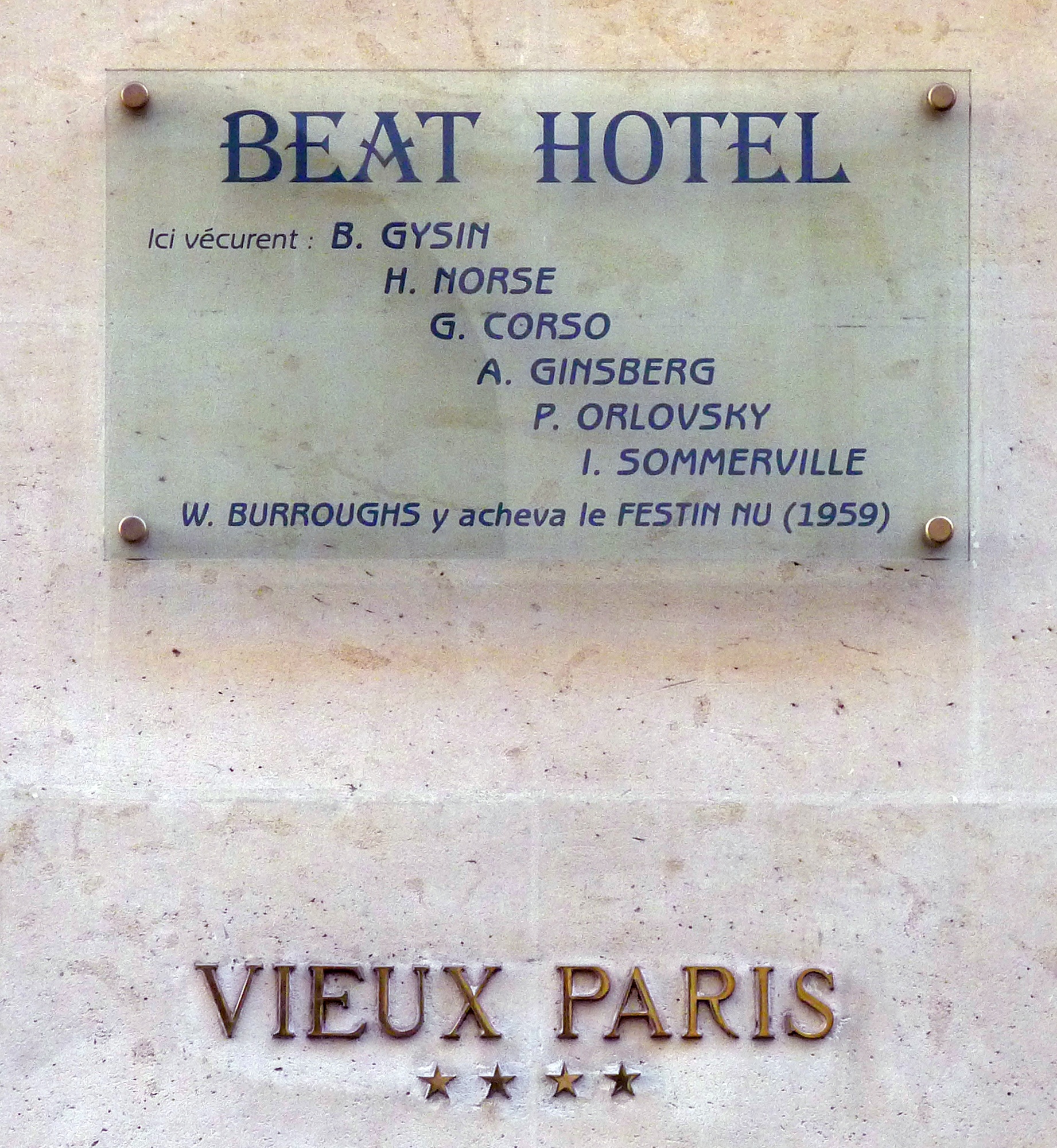 Plaque at No. 9 Rue Gît-le-Cœur, Paris 6th, in honour of the Beat Hotel's most famous occupants: William S. Burroughs, Gregory Corso, Allen Ginsberg, Brion Gysin, Harold Norse, Peter Orlovsky, Ian Sommerville. It was here that Burroughs completed the text of Naked Lunch in 1959. The Beat Hotel became the Relais Hôtel Vieux Paris in 1980.